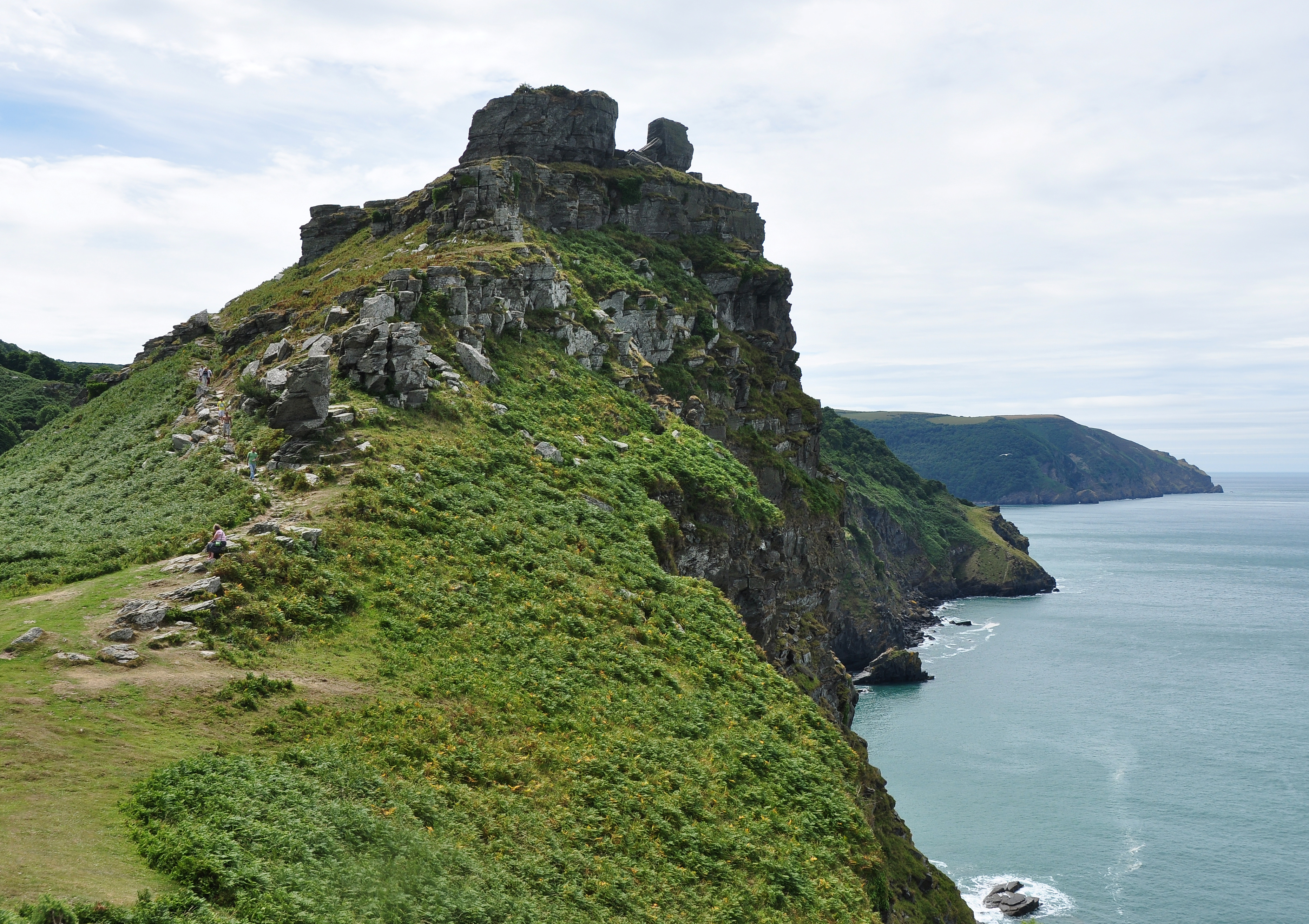 Castle Rock at the end of the Valley of Rocks near Lynton on Exmoor.